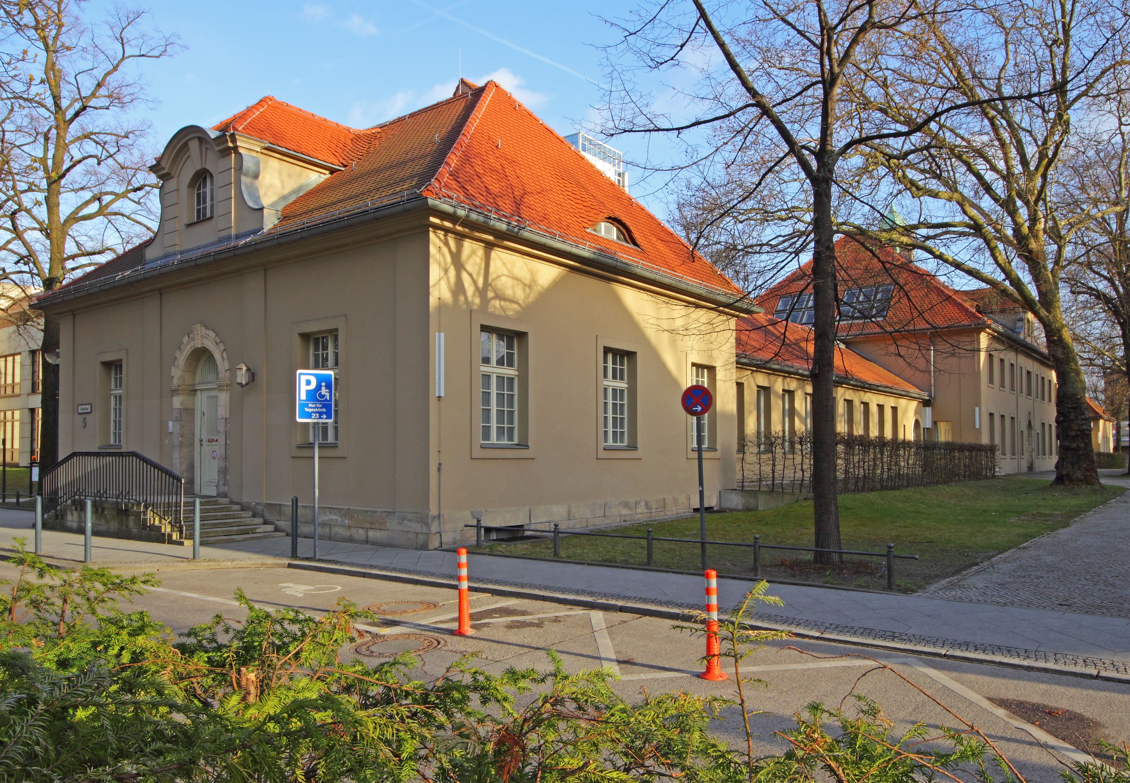 Berlin-Wedding, Virchow Hospital